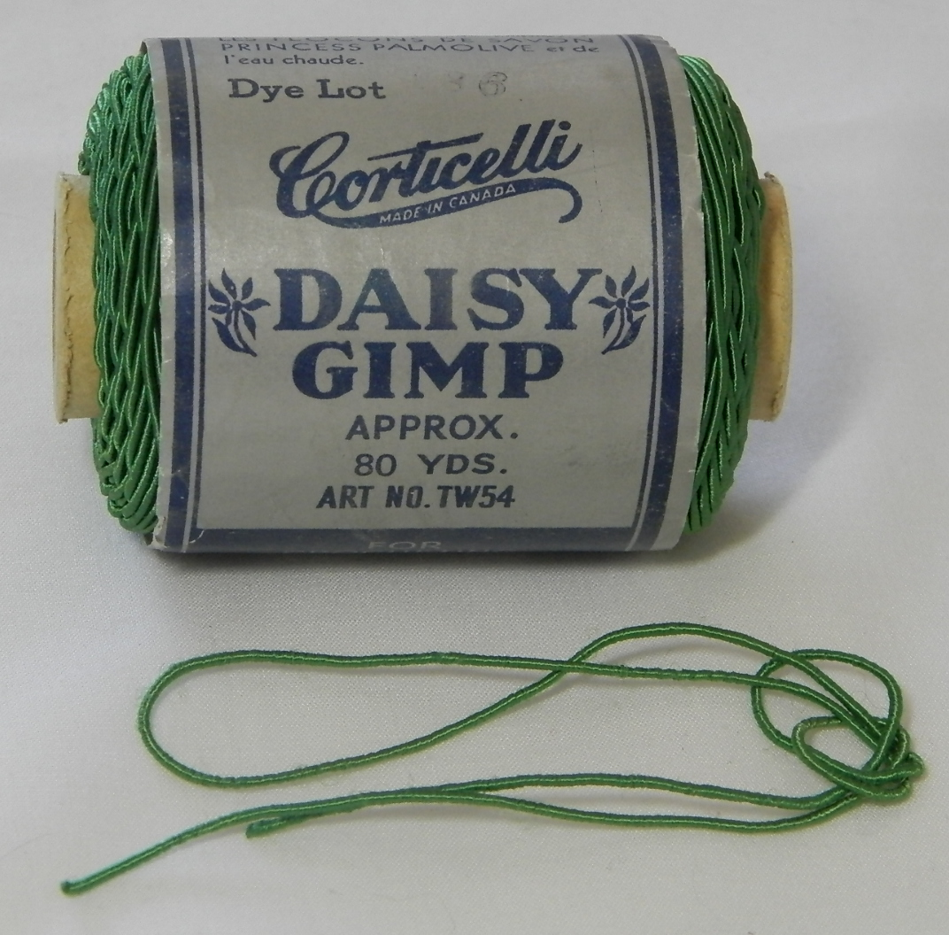 Spool of Corticelli Daisy Gimp. Probably "Shamrock Green".